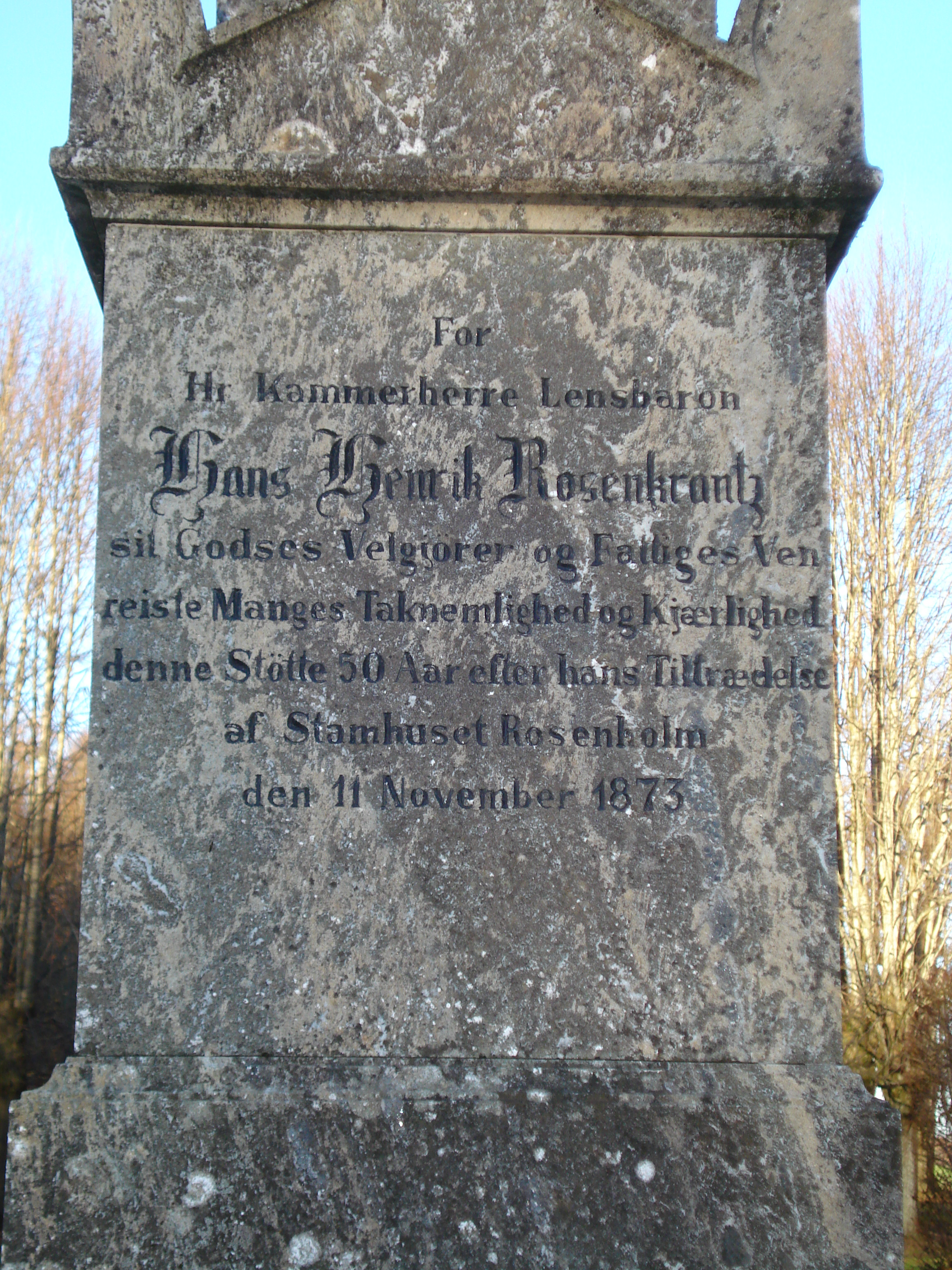 Danish text on the obelisk in memory of Baron Hans Henrik Rosenkrantz (1806-73). Erected in the park at Rosenholm Castle.